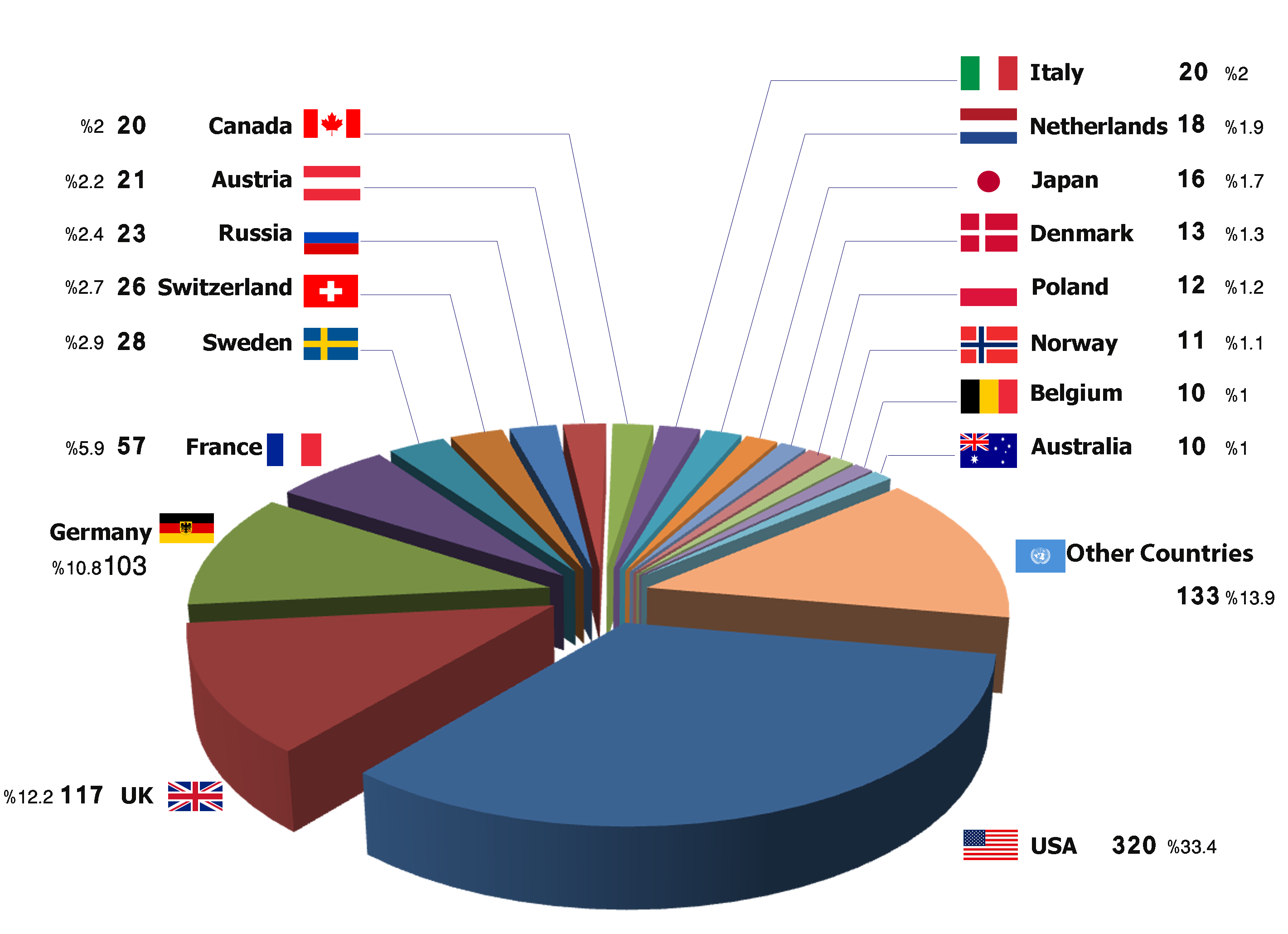 Distribution of Nobel Prizes by country. The number is the number of total prizes won by that country. The percentage is out of the total sum of all countries. Prizes given to International organizations were not counted. All counts were up to and including 2010. However since one person may be claimed by more than one country, the counts overlap and the total value is not exact. So the percentage figure is not really a precise figure, but is only good as a ball park figure.the source for the figures is from: (2010/09/10)